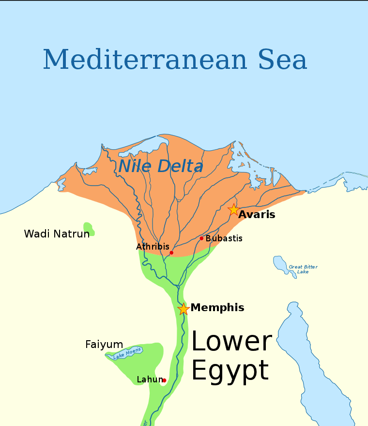 In orange, territory under control of the 14th dynasty, c. 1720 - 1650 BC during the Second Intermediate Period, after Ryholt.